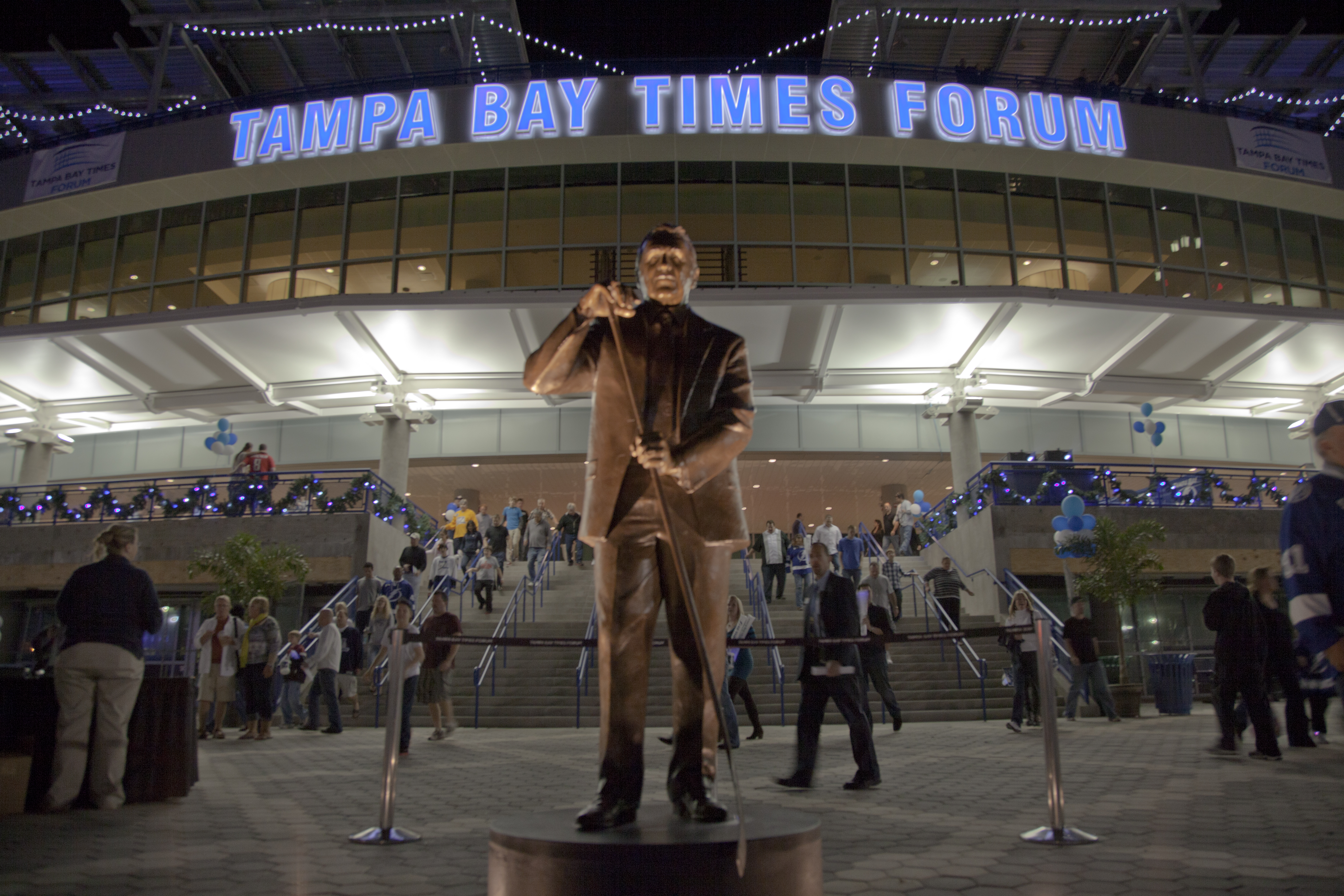 The Phil Esposito statue at the Tampa Bay Times Forum, December 31, 2011.